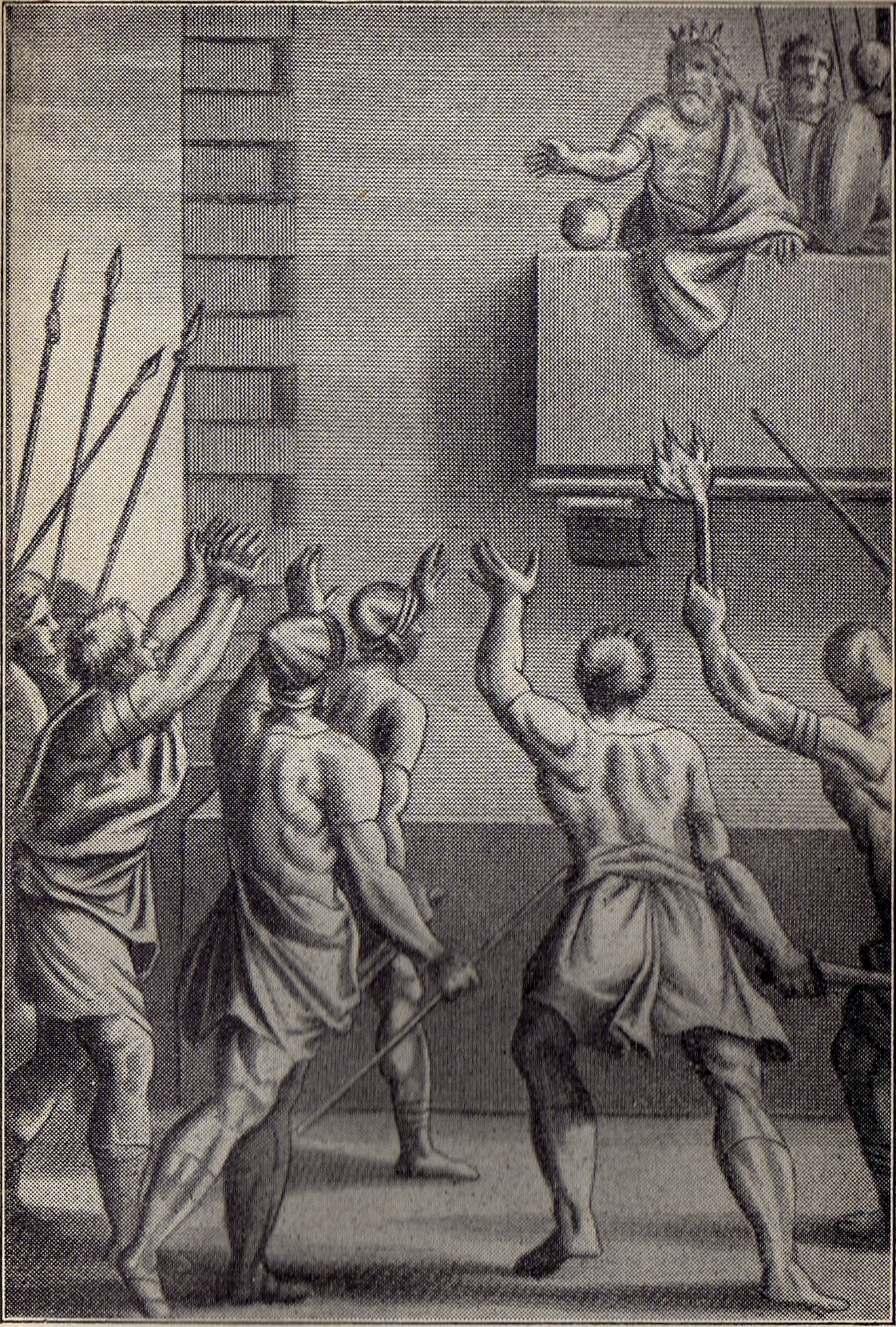 Frontispiece to the 1660 version of Nicomède by Corneille.